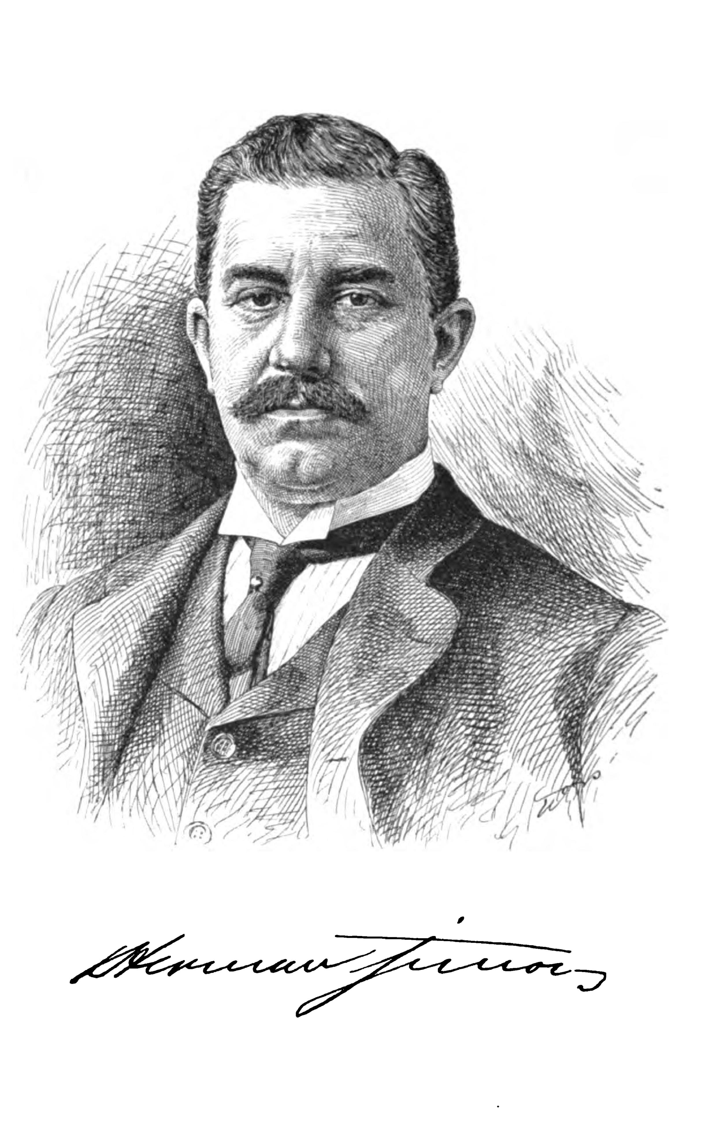 Herman Simon was a German-born American textile manugacturer. He is best known for building the Herman Simon House